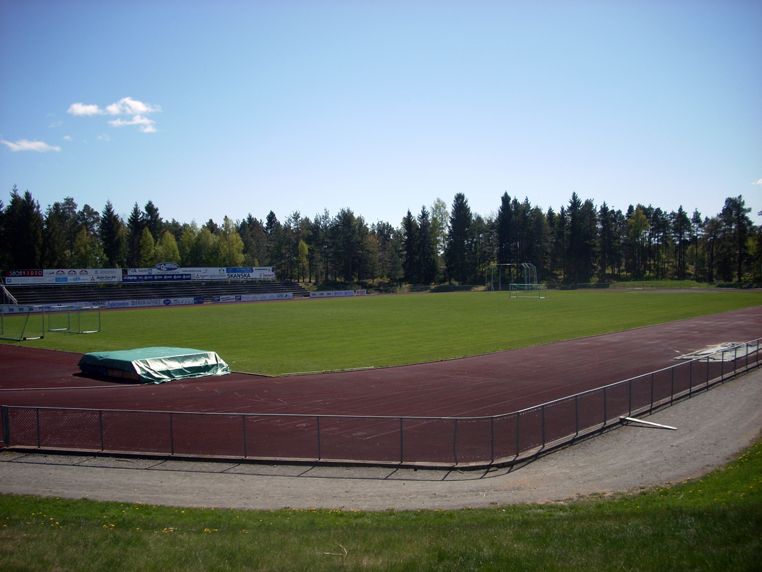 Lunderød stadium, Arendal, Norway